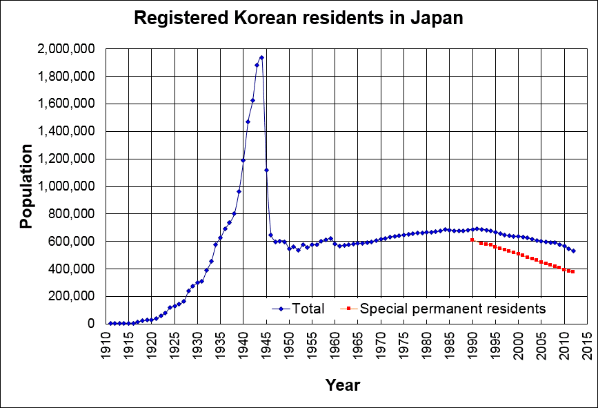 Registered Korean residents in Japan 1911